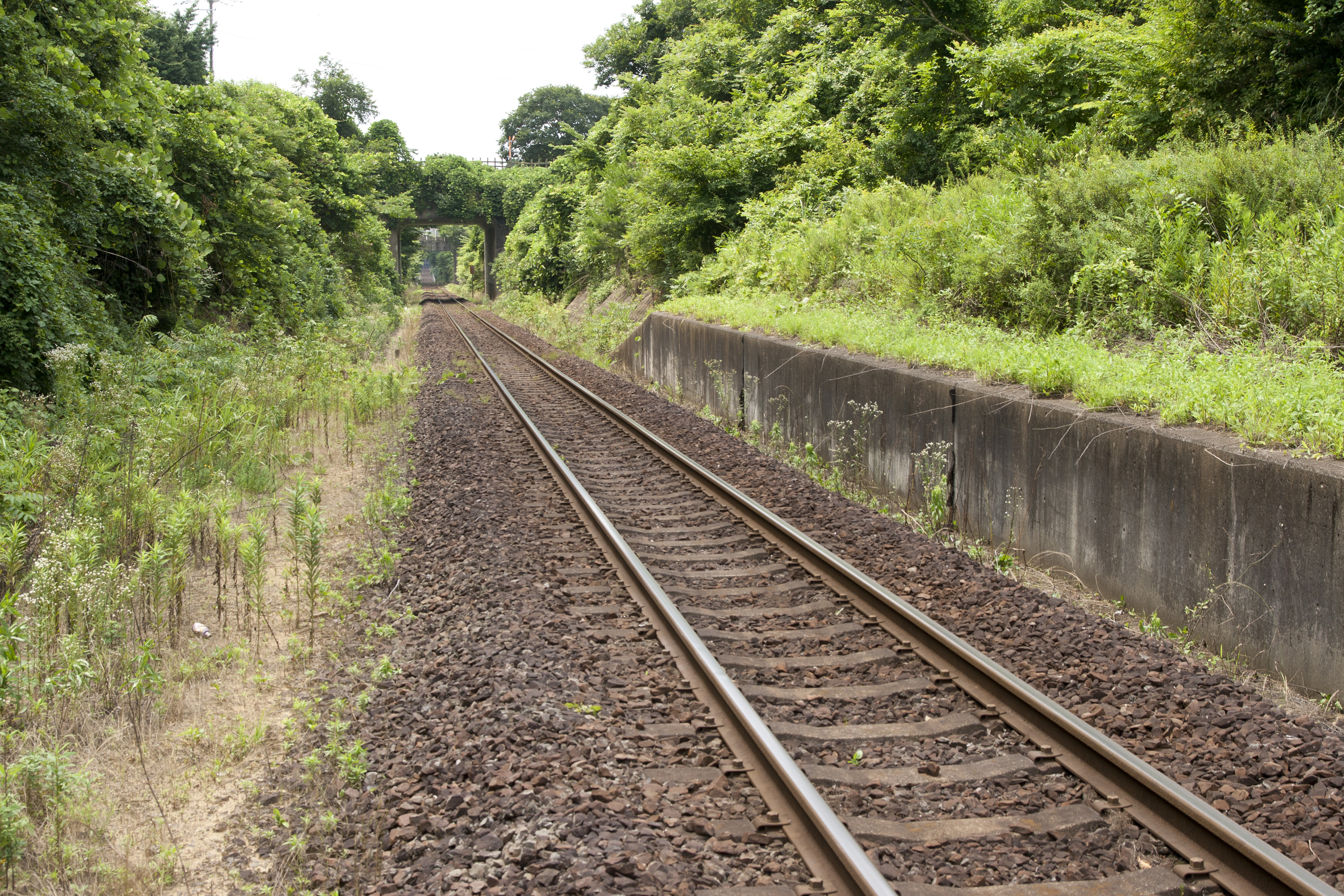 Tokushuku Station in Hokota City, Ibaraki Prefecture, Japan